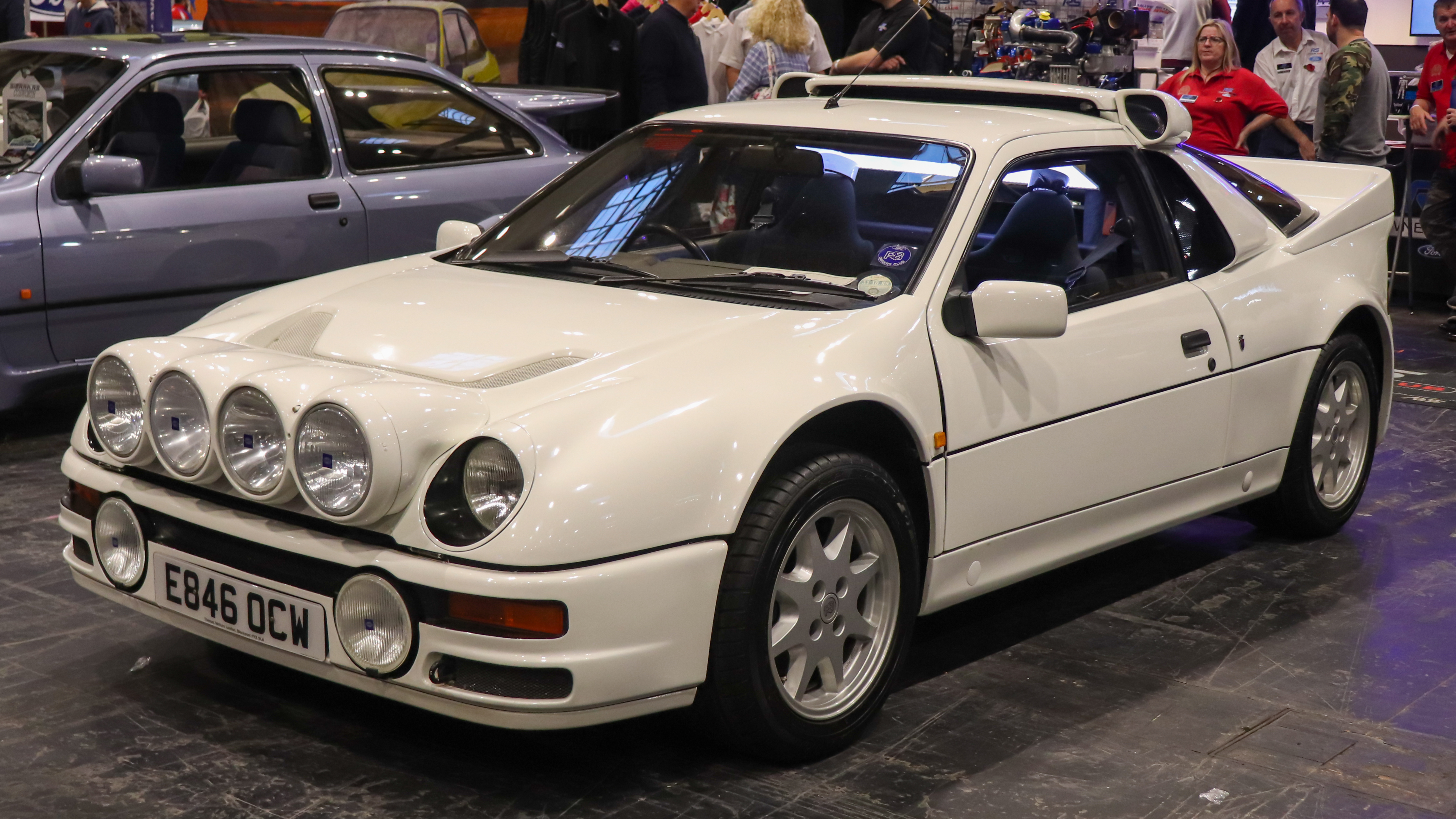 1988 Ford RS200 4WD 1.8 Front Taken at the NEC Classic Motor Show 2019